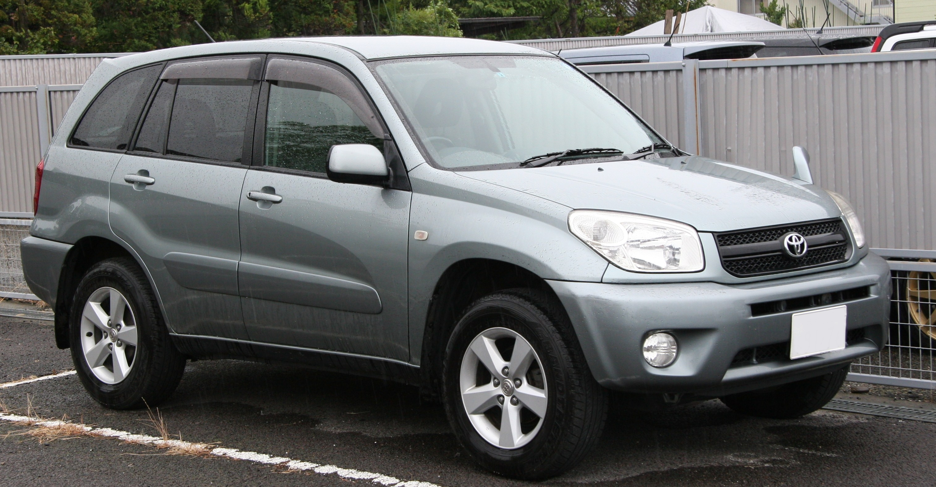 Toyota RAV4